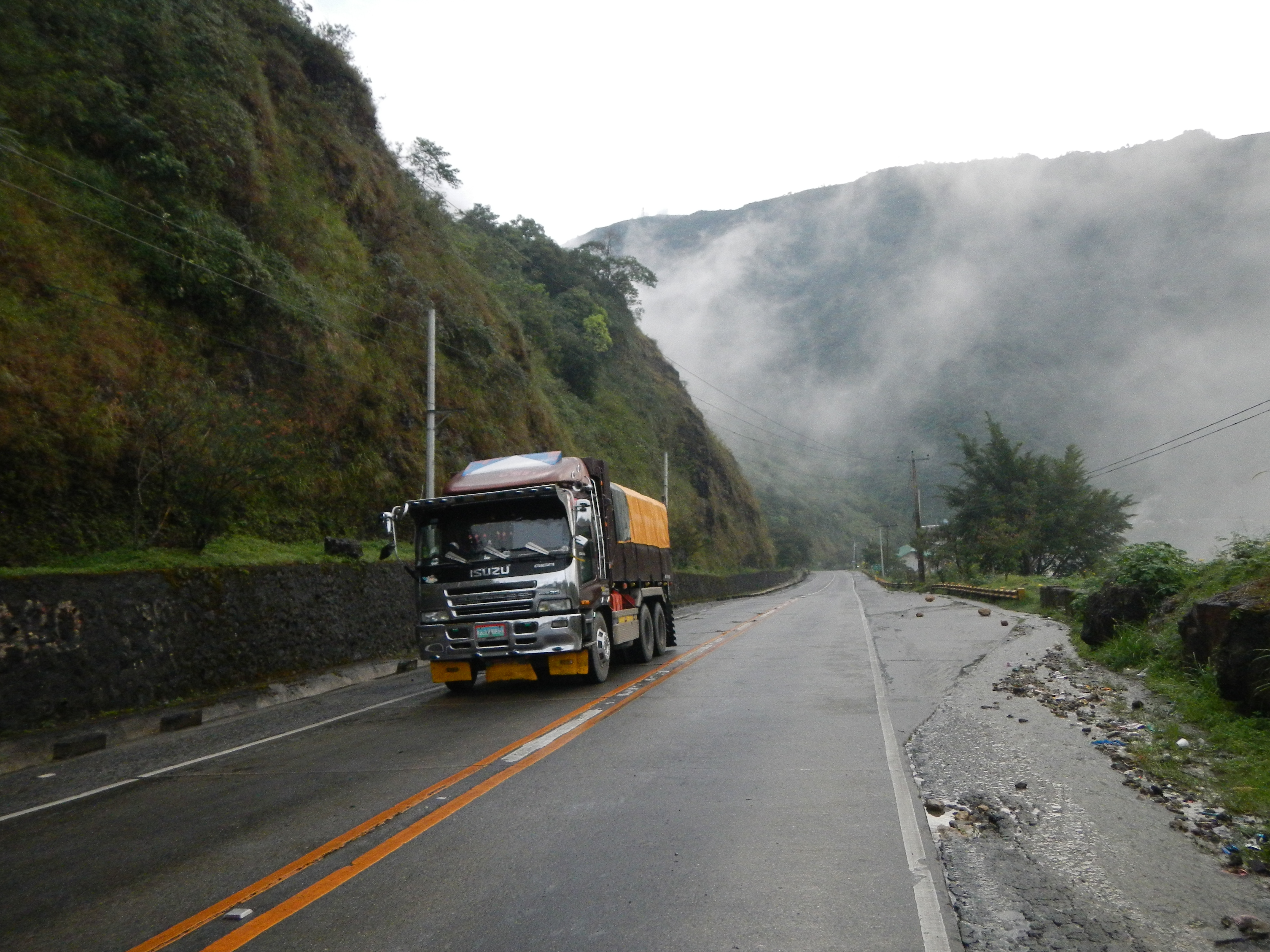 Upload Wizard photos of - the - foggy view of Tuba, Benguet Town Proper and nearby barangays, Sitio Bontiway, Poblacion, (Details -- the Tuba Public Market beside the Covered Basketball Multi-Purpose Court, Barangay Hall of Poblacion, Senior Citizen's Building, Strawberry Day Care Center, Tubencoga Office, -- Tuba Town Proper, Centro, Poblacion, Product Display Center, Tuba Municipal Hall Complex, Police Station, - scenery, panoramic, landscapes of Tuba mountains and hills, with panoramic view of Baguio City houses and City Proper in the mountains, beside the - Conversion of Saint Paul Parish Church of Tuba (F-1975), Tuba 2603 Benguet Titular: Conversion of St. Paul, January 25 Parish Priest: Fr. Victor Munar Saint Paul Parish Church of Tuba,[1] [2] [3] Poblacion, Tuba, Benguet[4] (first class municipality in the province of Benguet,[5] Philippines politically subdivided into 13 barangays) in he Central Cordillera Mountain Range [6]) - beside the Saint Paul Children's School, Tuba Central School, DepED CAR, Tuba District) - and the view along Marcos Highway - now the Aspiras-Palispis Highway.